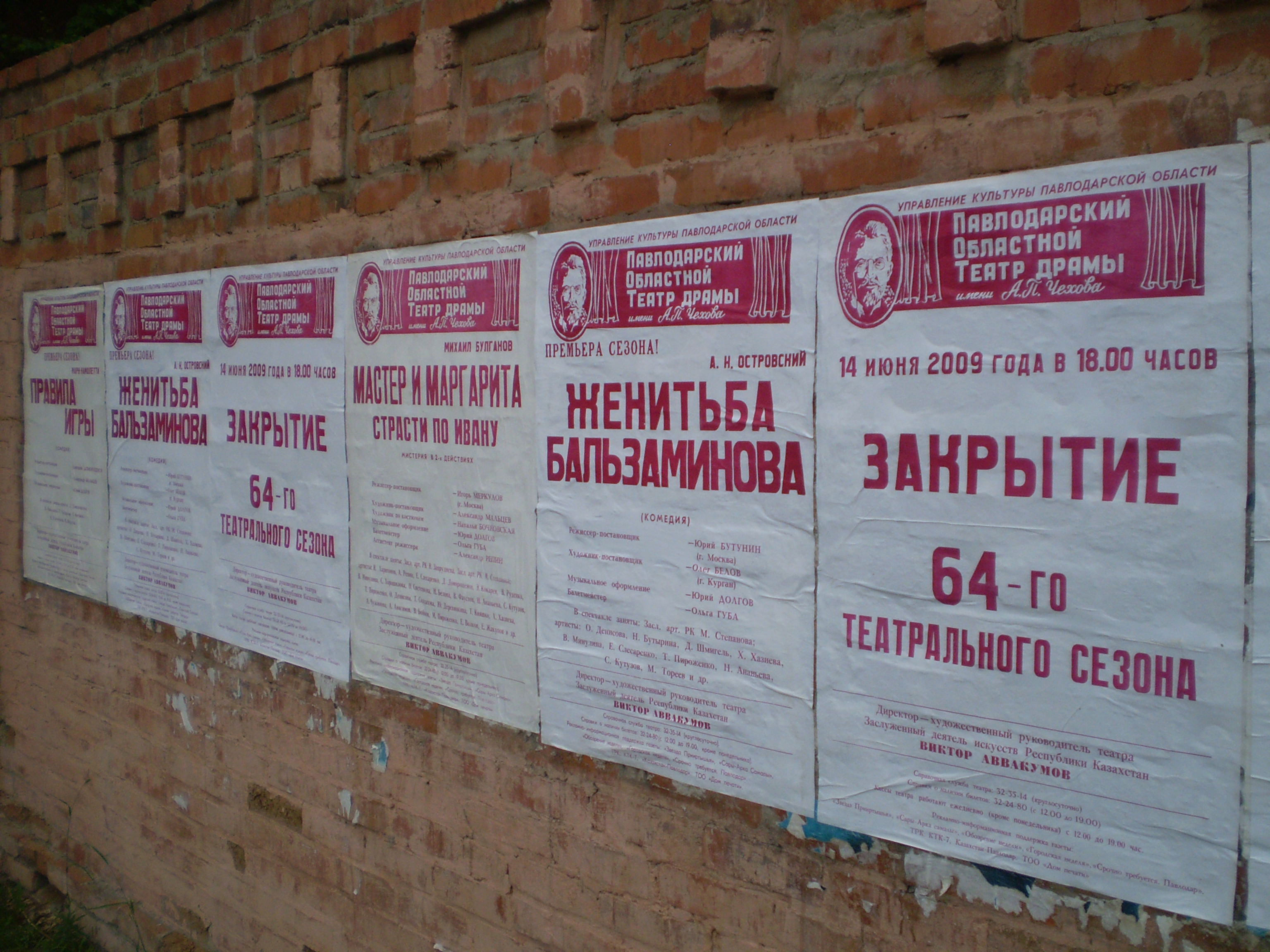 Pavlodar A.P. Chekhov drama theatre. Playbills of 2009 season